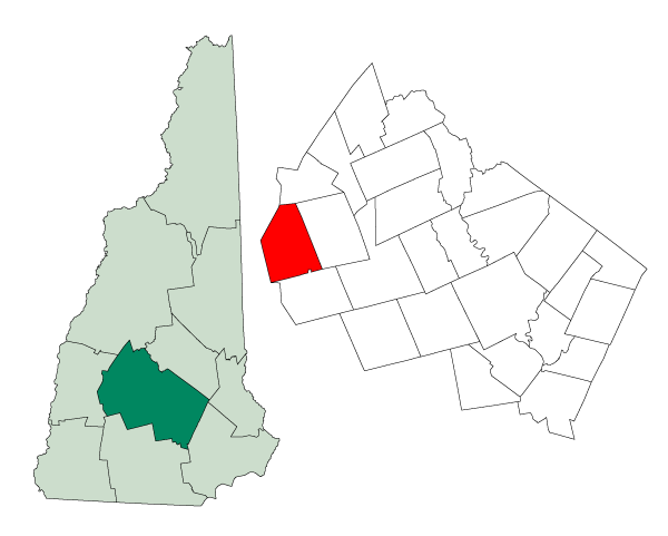 Map of a municipality in Merrimack County, New Hampshire